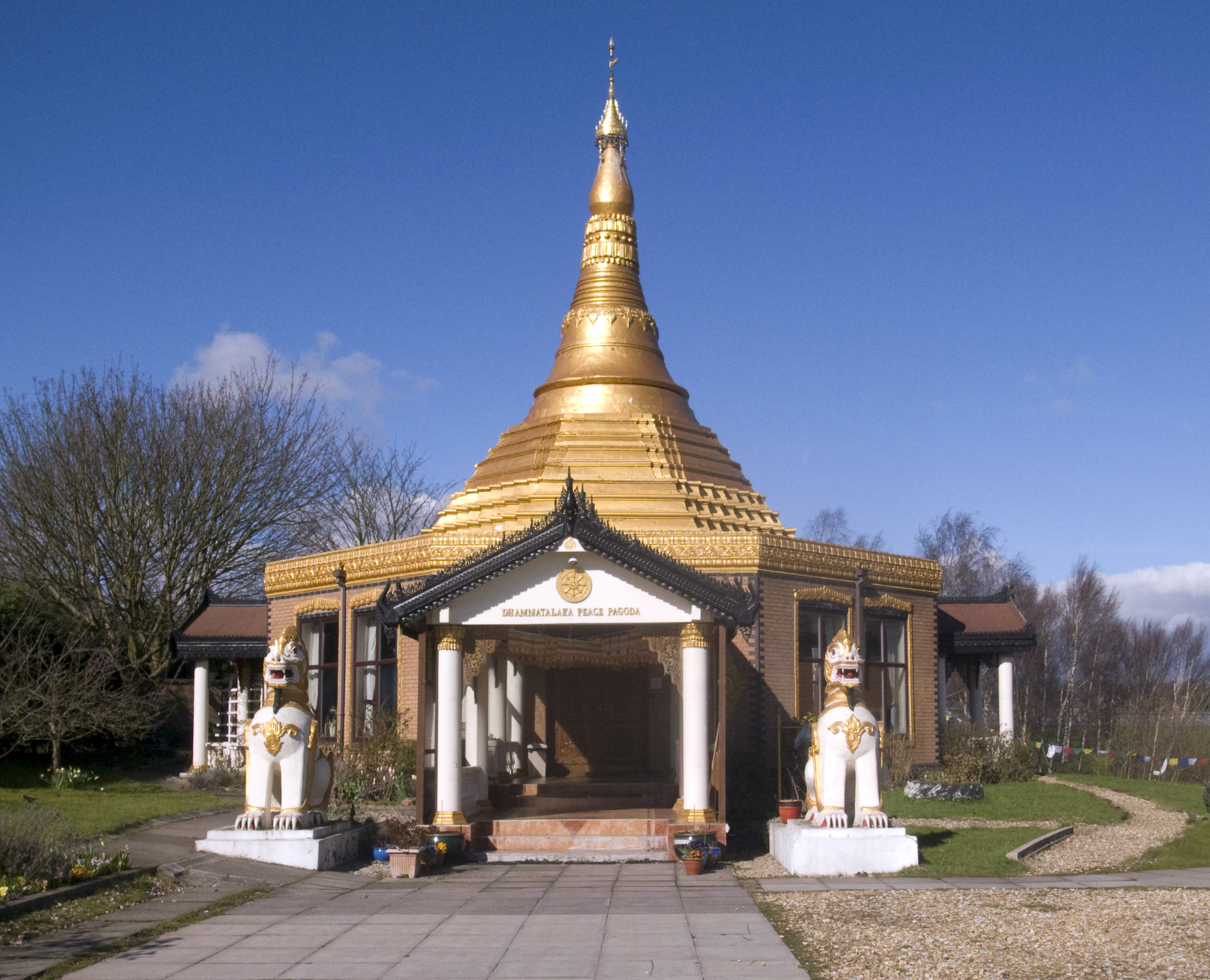 Dhamma Talaka Peace Pagoda, Birmingham, England. A Buddhist peace pagoda.